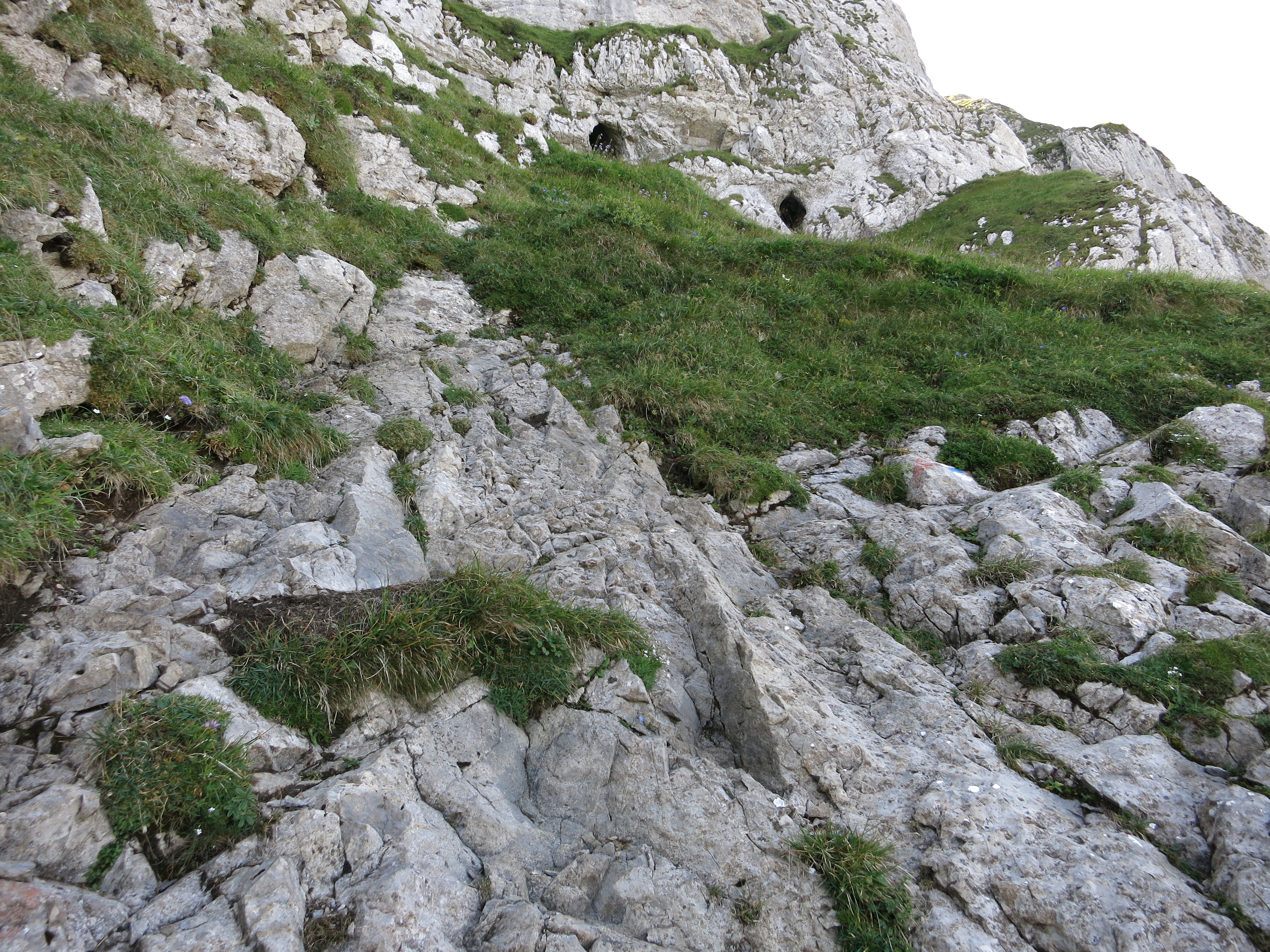 Mountain Nasenlöcher (Alpstein), Switzerland